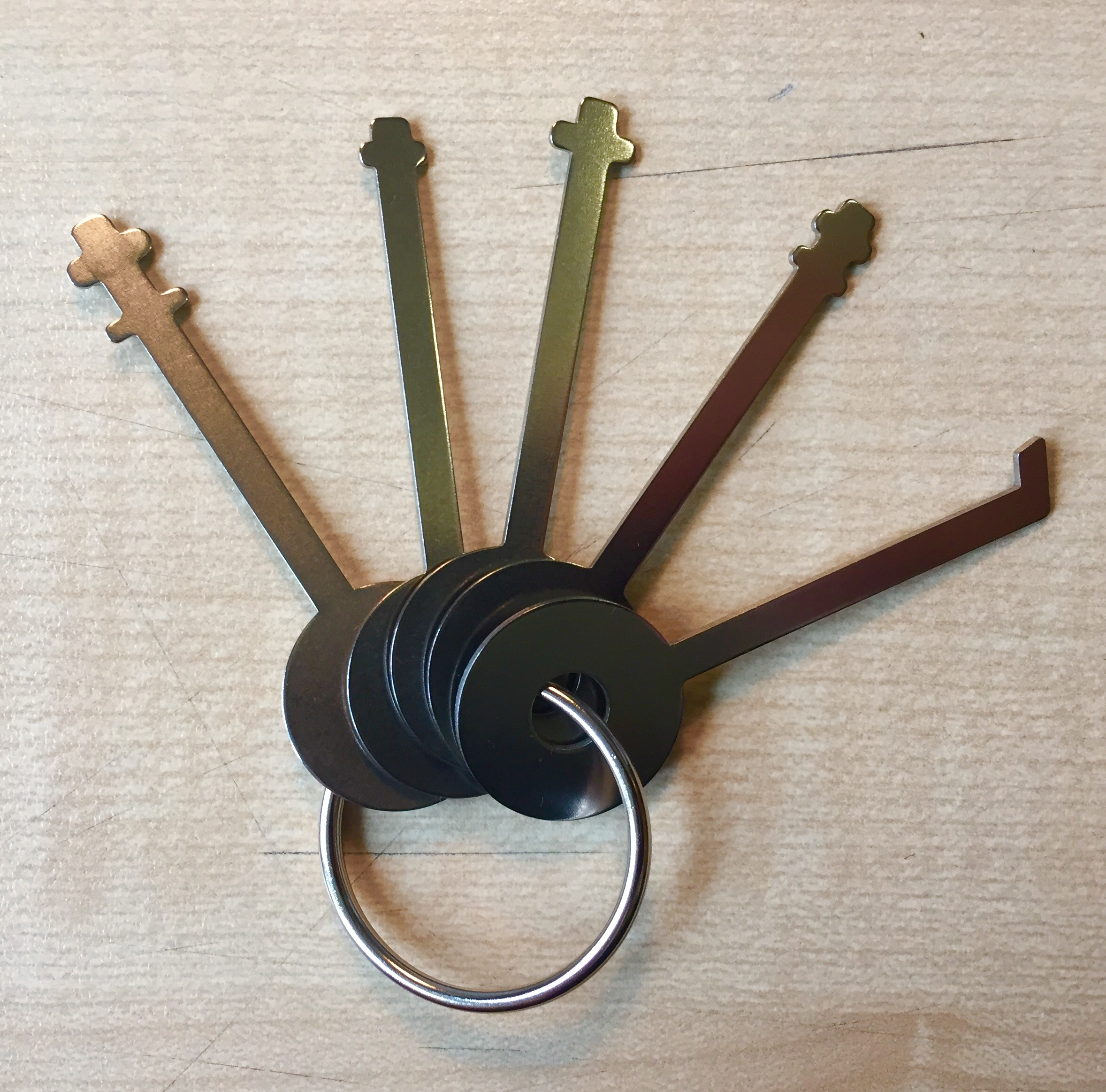 A common set of "skeleton" keys used to open most types of warded padlocks, through a type of lock bypass method.